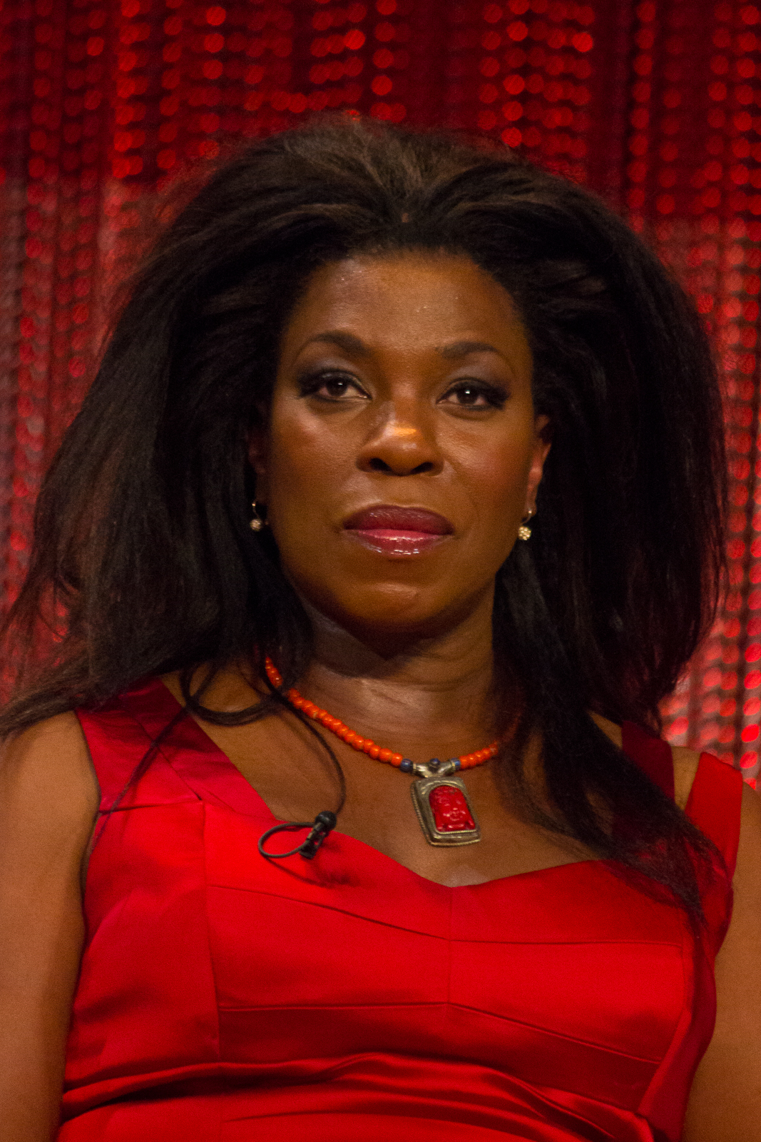 Actress Lorraine Toussaint at The Paley Center For Media's PaleyFest 2014 Honoring "Orange Is The New Black"